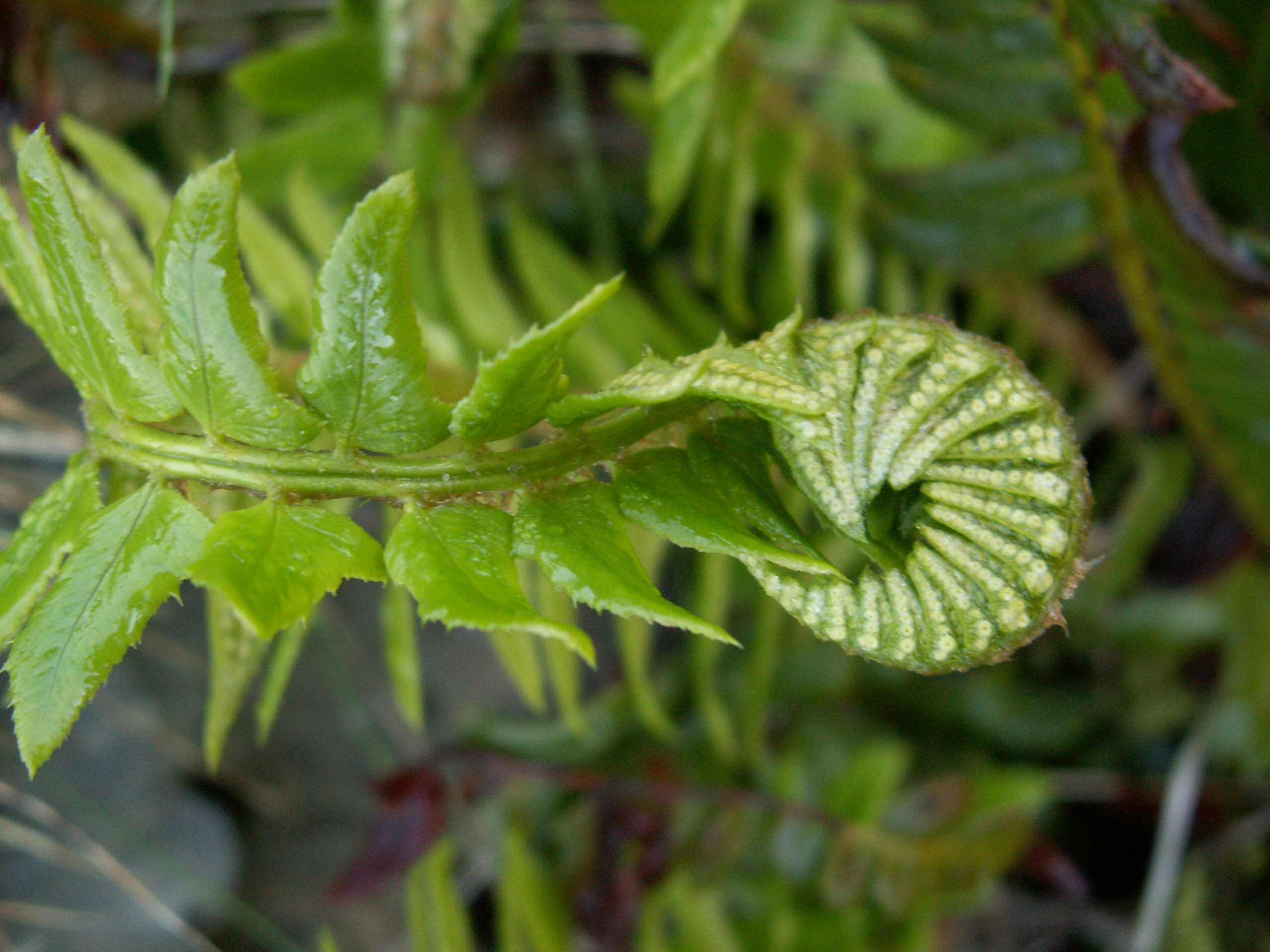 Polystichum lonchitis Quelle: own photograph, Schynige Platte (Switzerland, Kanton Bern) Thomas Mathis Date: 14.7.05